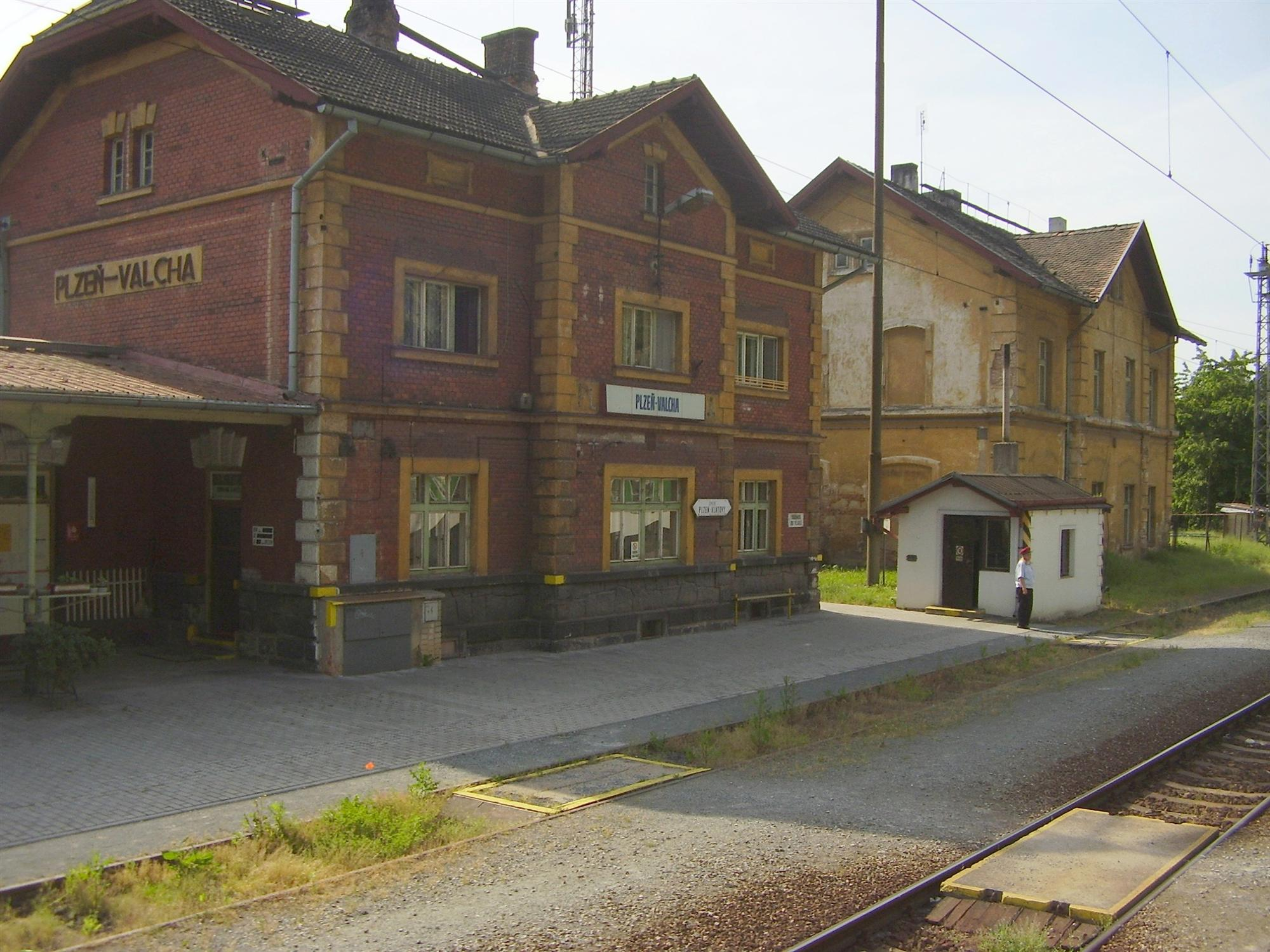 Train station Plzeň-Valcha